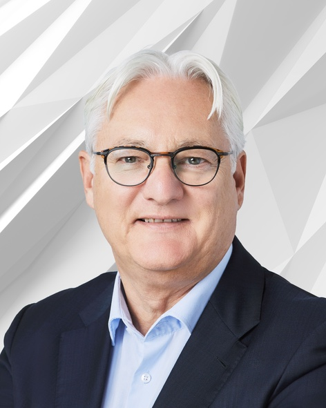 Peter Voser, Chief Executive Officer, Royal Dutch Shell